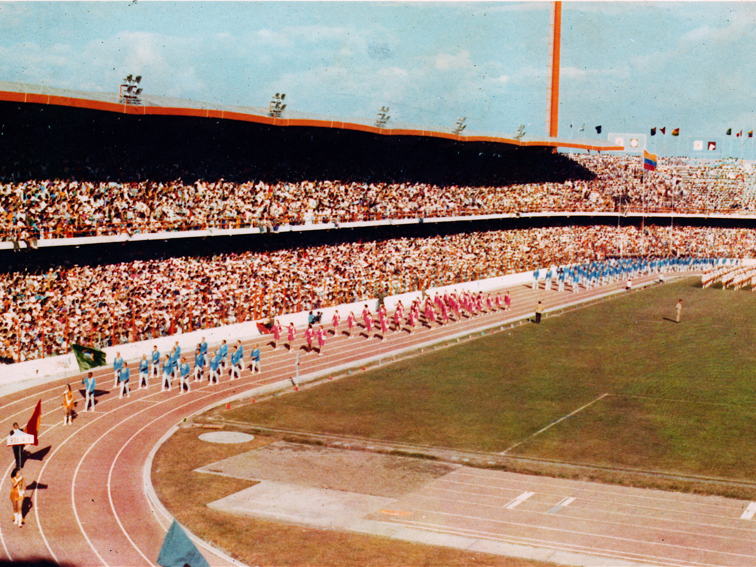 These Games were very well organized. The show-up for the inauguration was impressive. Brazil is the blue platoon for men and red for ladies, as shown in this picture.The first group in blue are managers and coaches. I was usually excused from this presentation since I had to compete on the following day. I took this picture with a Pentax 35 mm with 35 mm. lens plus UV filter.